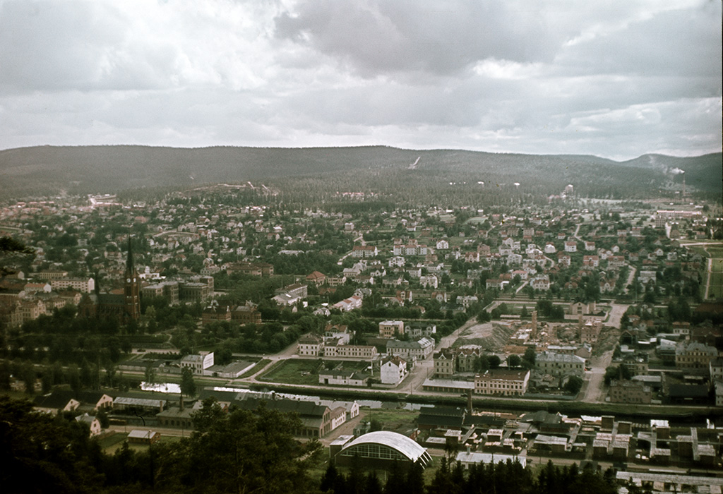 View of Sundsvall. Vy över Sundsvall. Parish (socken): Sundsvall Province (landskap): Medelpad Municipality (kommun): Sundsvall County (län): Västernorrland Photograph by: Fredrik Bruno Date: 1944 Format: Colour slide See a recent photo of the same view: Persistent URL: Read more about the photo database (in english)